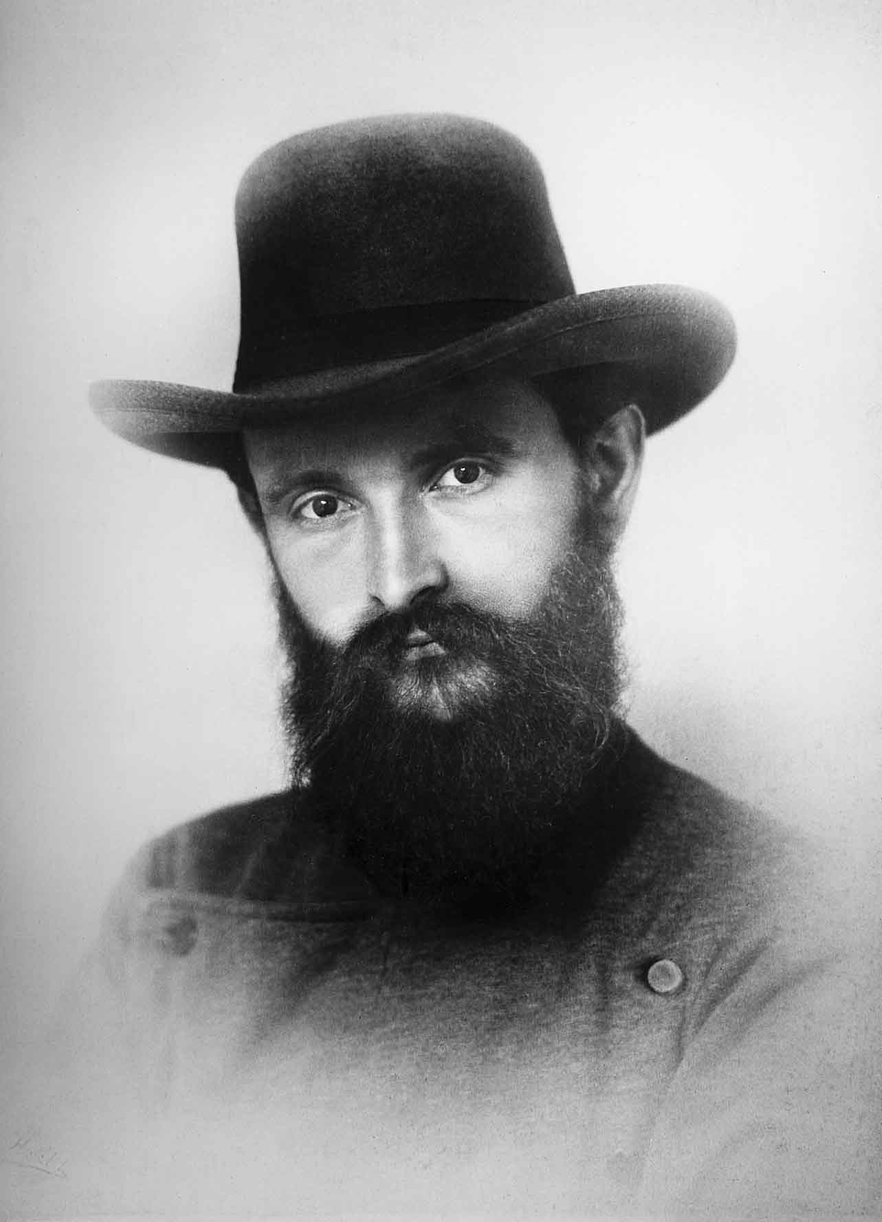 Robert Bosch in the year 1888 at the age of 27. Two years before, at the age of 25 years, he had founded a "workshop for precision mechanics" in Stuttgart. Now the young entrepreneur let himself be made a blueprint in a Stuttgart photo-studio - with hat, which he always wore, if he visited customers.